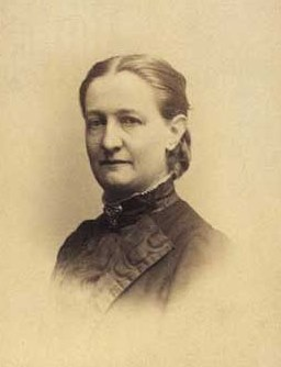 Rigmor Stampe Bendix, née Baroness Stampe (1850-1923), Danish noblewoman and women's rights activist, editor, and philanthropist